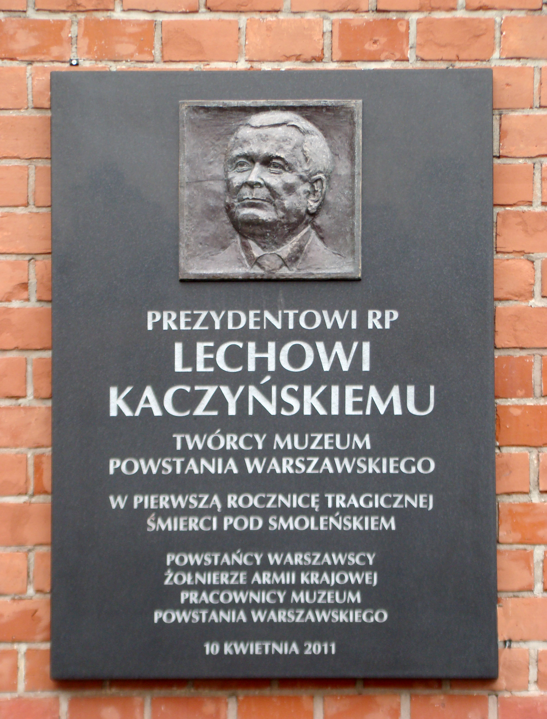 Memorial plate for President Lech Kaczyński